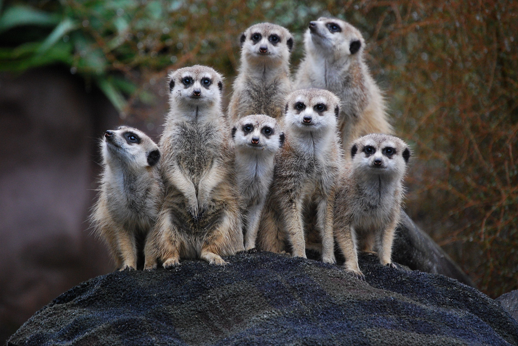 A group of Meerkats at Auckland Zoo, New Zealand.